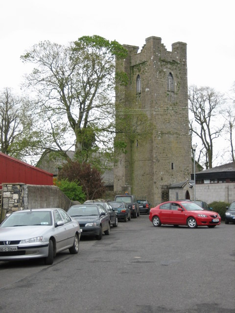 St James' Church, Athboy The Church of Ireland parish church.